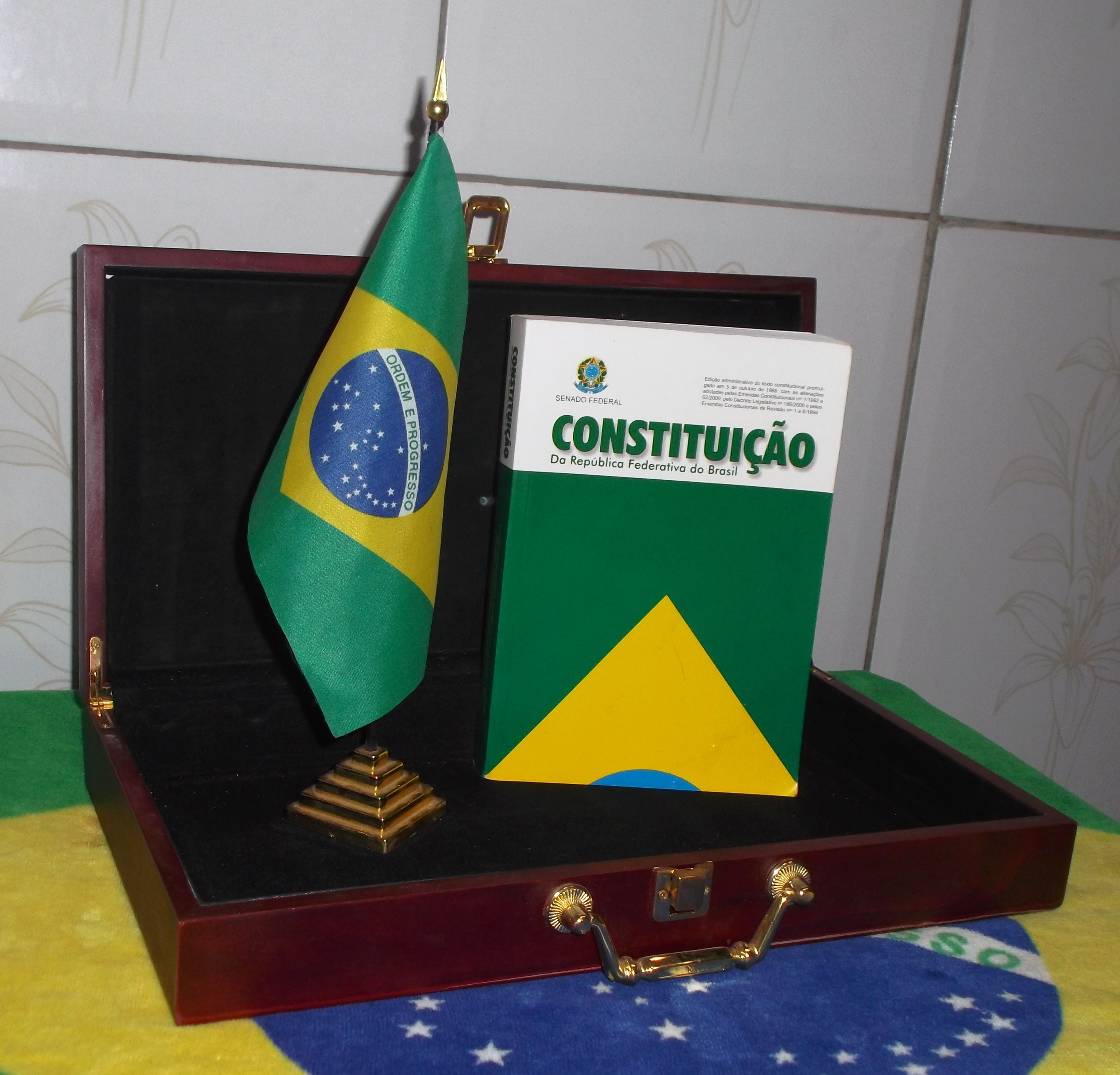 Flag of Brazil.